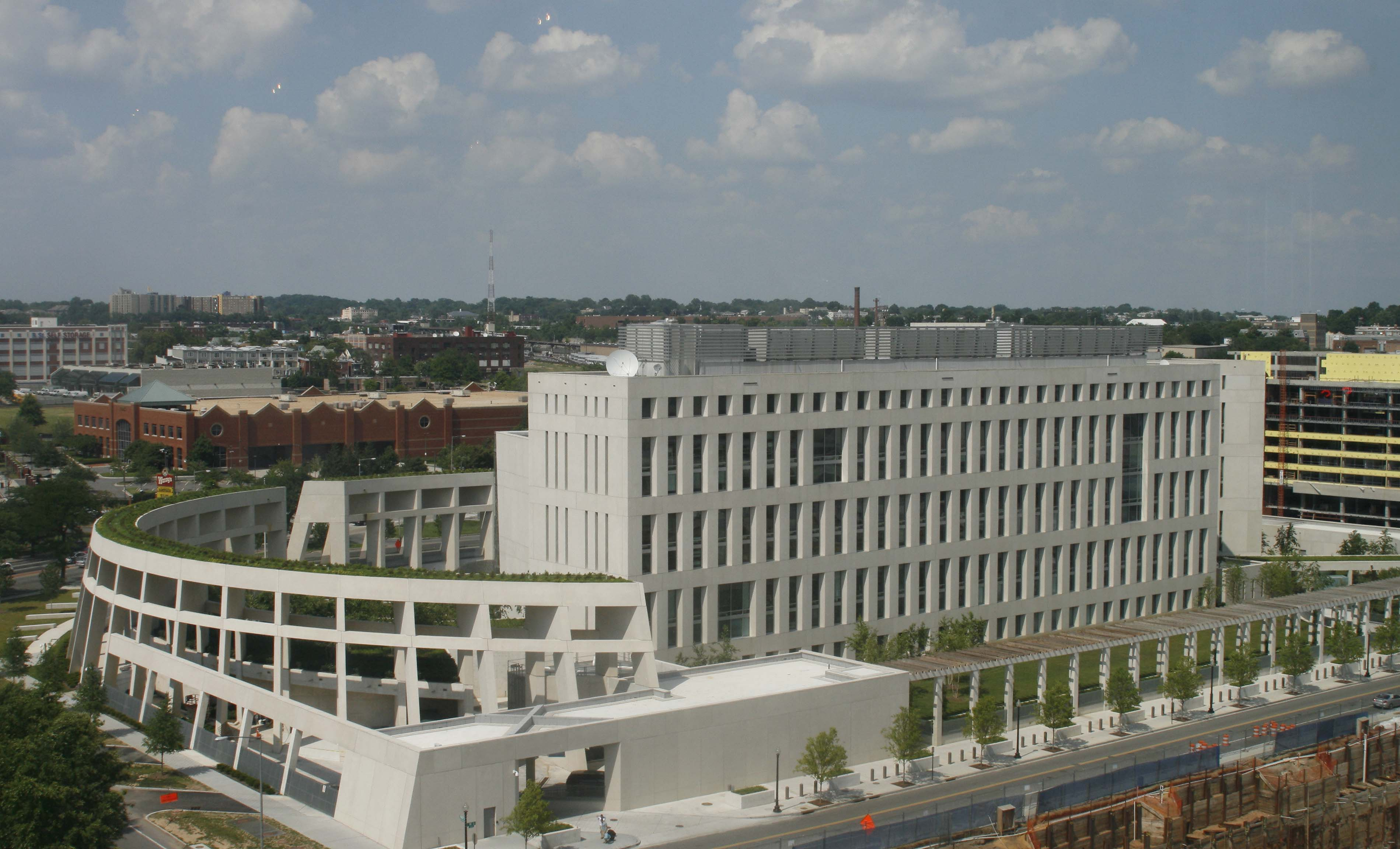 Bureau of Alcohol, Tobacco, Firearms and Explosives (ATF) headquarters in Washington, D.C. The address is: 99 New York Avenue, NE, Washington DC 20226 USA